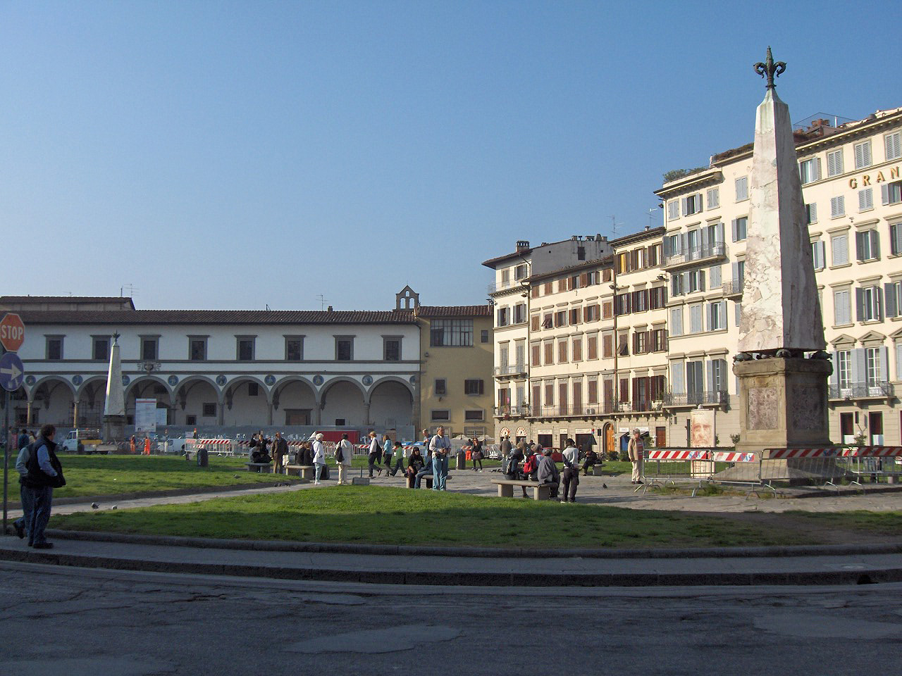 Square in front of the church Santa Maria Novella, Florence, Italy Own photo - photo made by Georges Jansoone on 12 October 2005